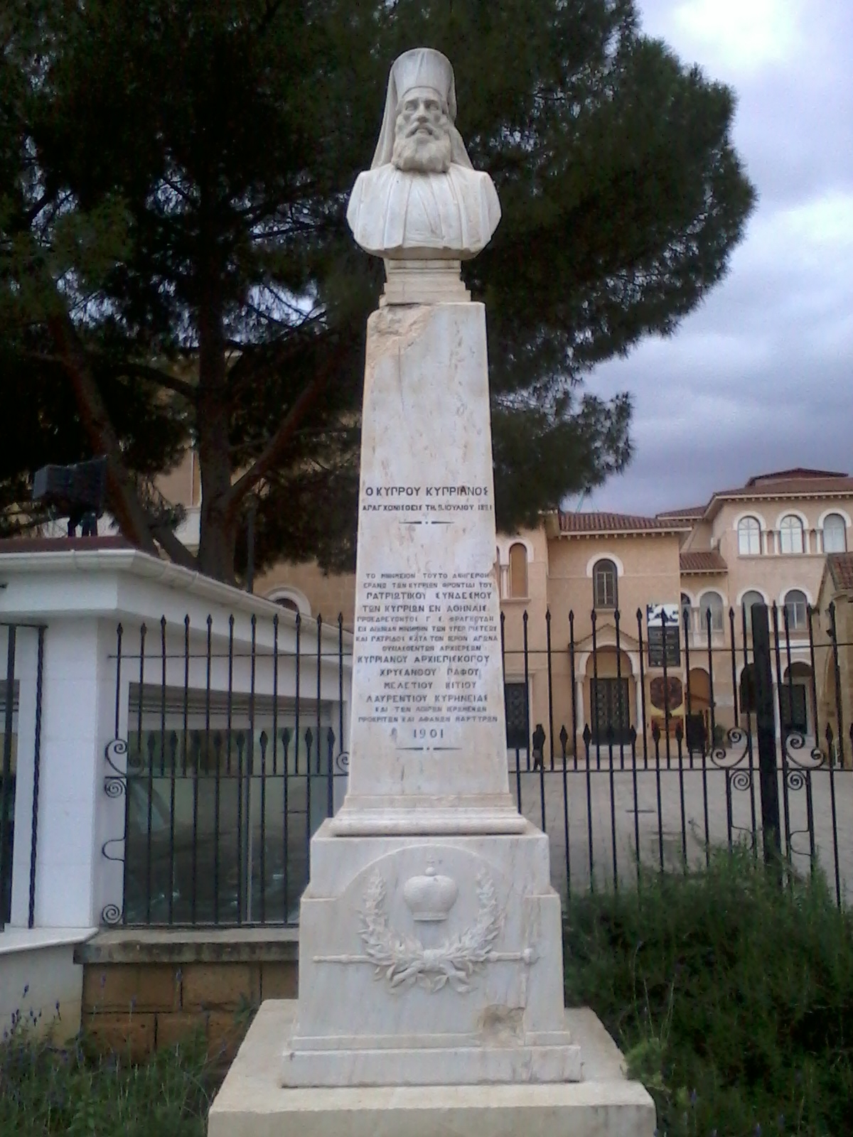 Bust of the Archbishop of Cyprus Kyprianos in Nicosia, by Georgios Bonanos. Kyprianos was hanged by the Ottomans in 1821.